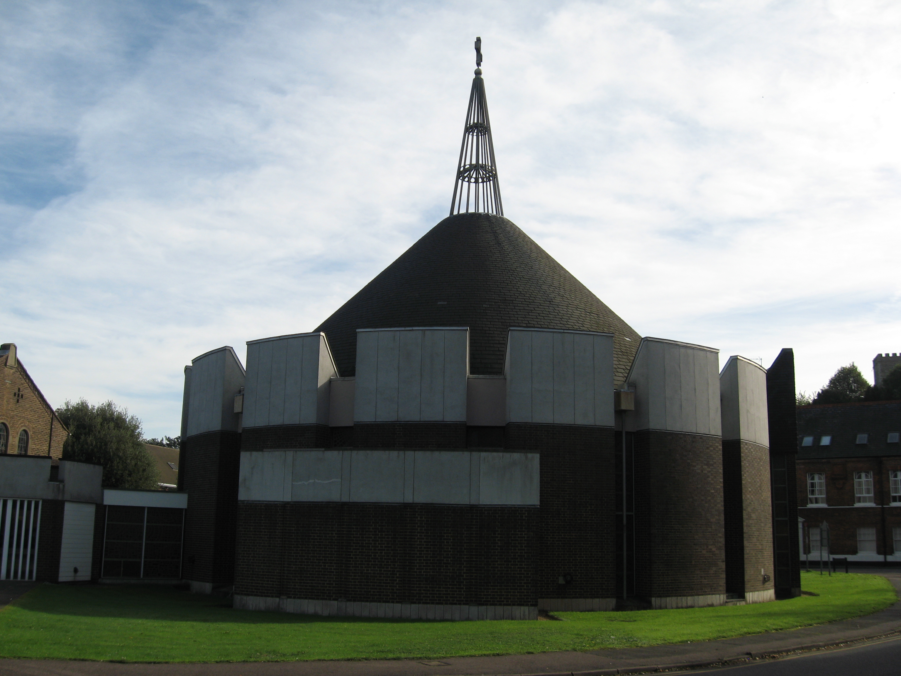 Marychurch, Hatfield. Modern (1970) round church near to Hatfield Station and Hatfield House’, George Mathers.